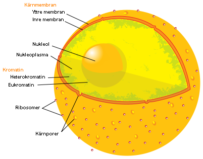 Modified for swedish text, original art by user LadyofHats on Commons.